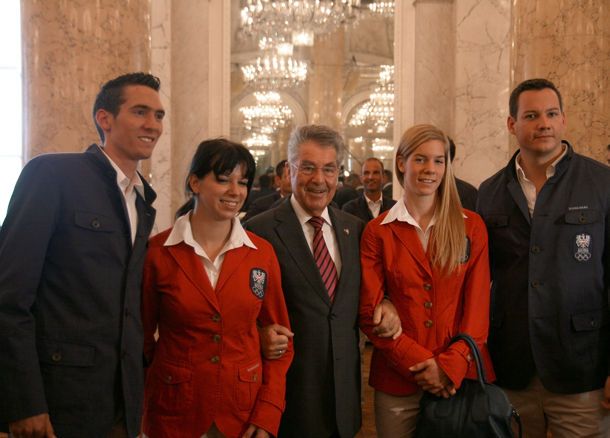 Track and road athletes Andreas Vojta, Elisabeth Eberl, Beate Schrott and Gerhard Mayer with federal president Heinz Fischer at the official farewell of the Austrian team for the 2012 Summer Olympics in London at the ceremonial hall of Hofburg Palace in Vienna.